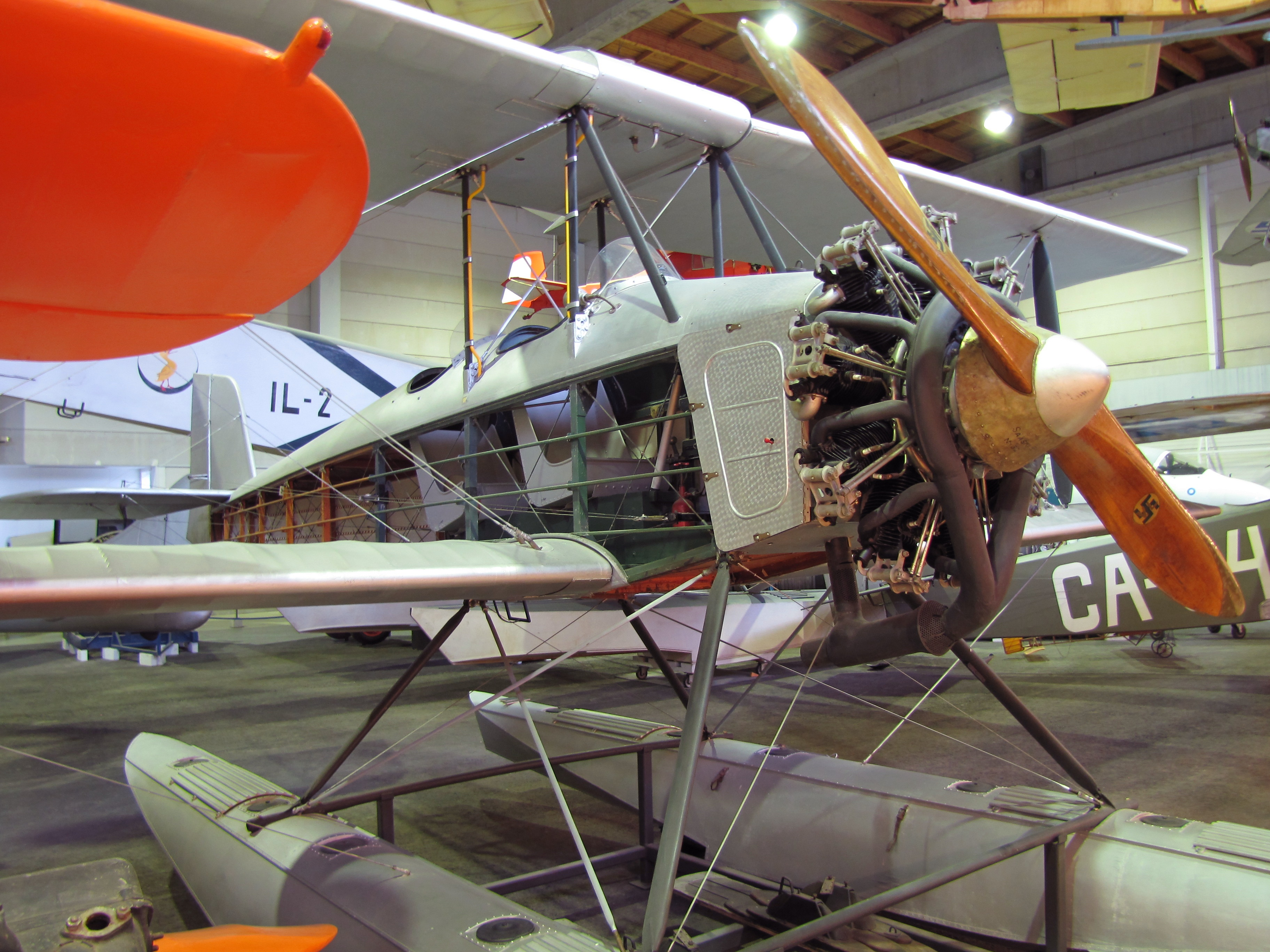 Finnish VL Sääski II primary trainer in Finnish aviation museum. Registration SÄ-122, serial number 11. The right side of the aircraft has been cut open for display.